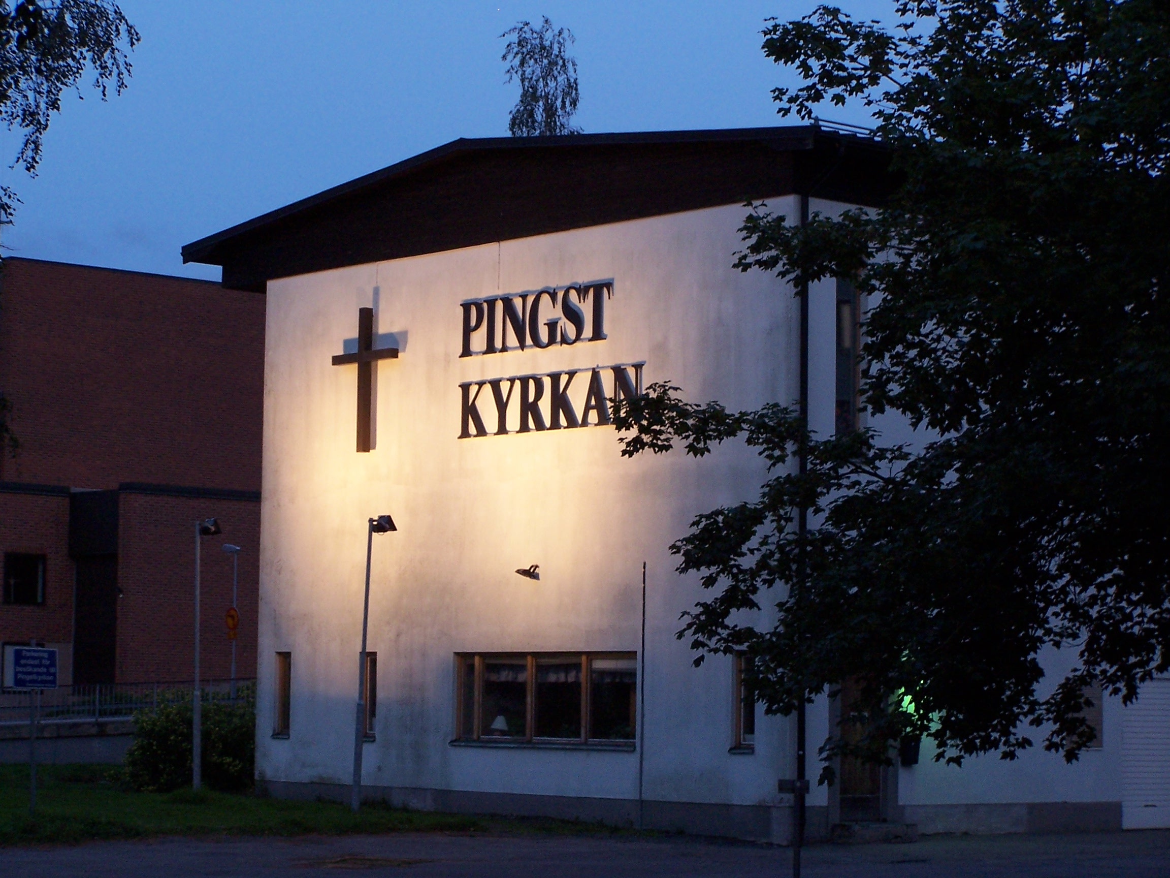 Pingstkyrkan i Härnösand (Pentecostal church in Härnösand), Sweden.